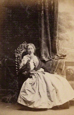 Albumen print, 19 March 1861, of Maude Stanley, by Camille Silvy